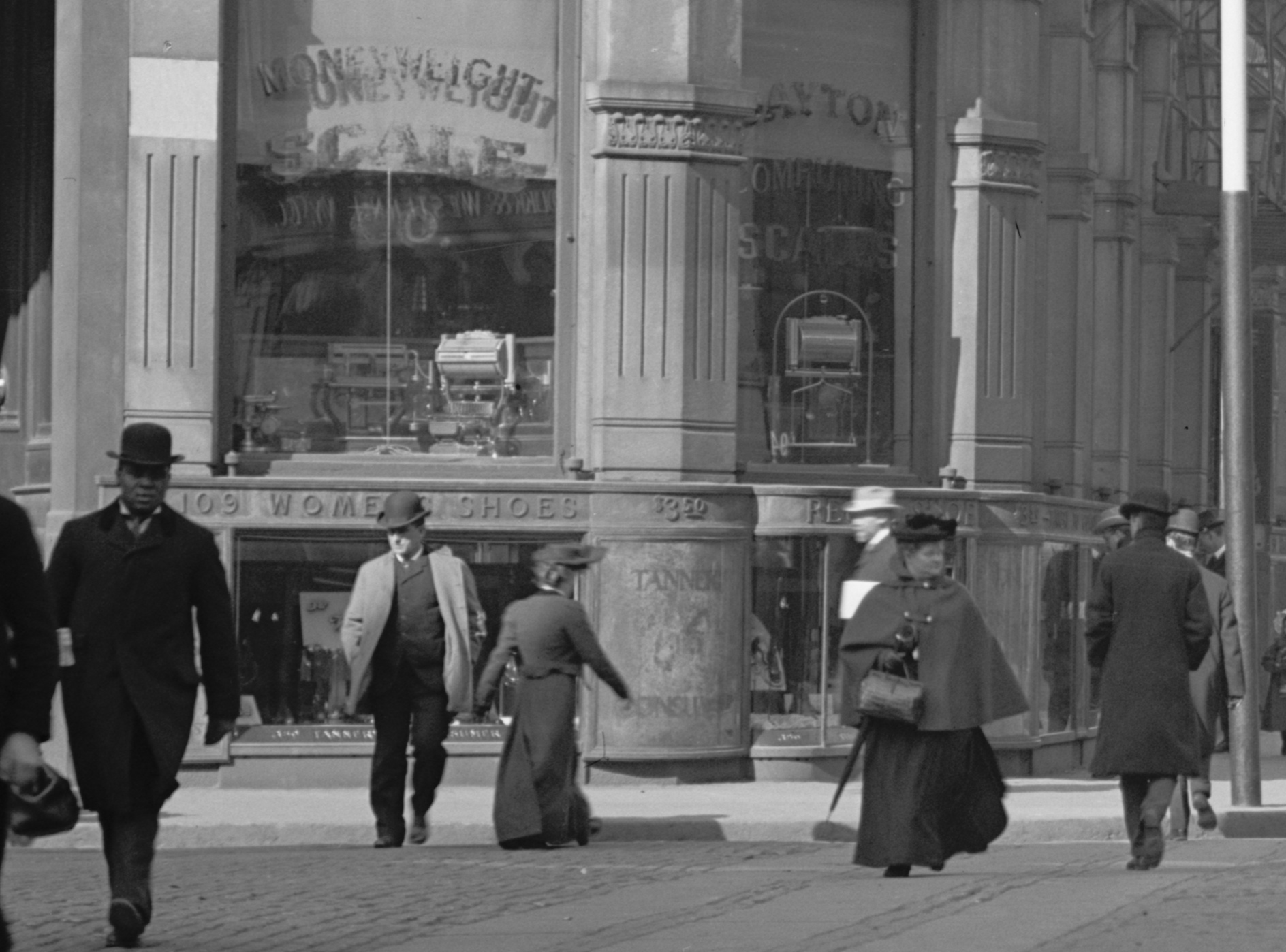 Summer Street, Boston, Massachusetts (detail from larger photo)